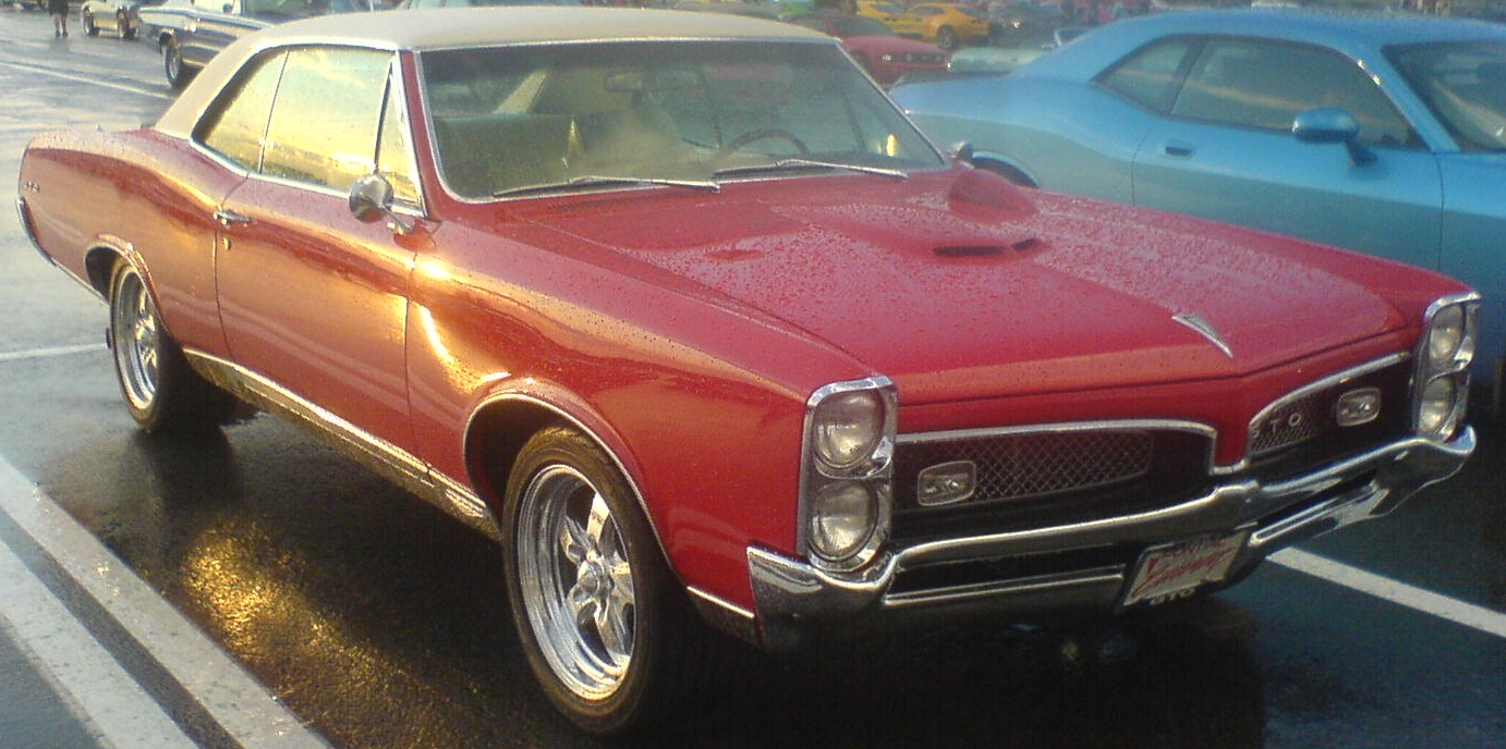 1967 Pontiac GTO with non-stock wheels and modern-era low-profile tires, photographed in Laval, Quebec, Canada at Les chauds vendredis 2010.